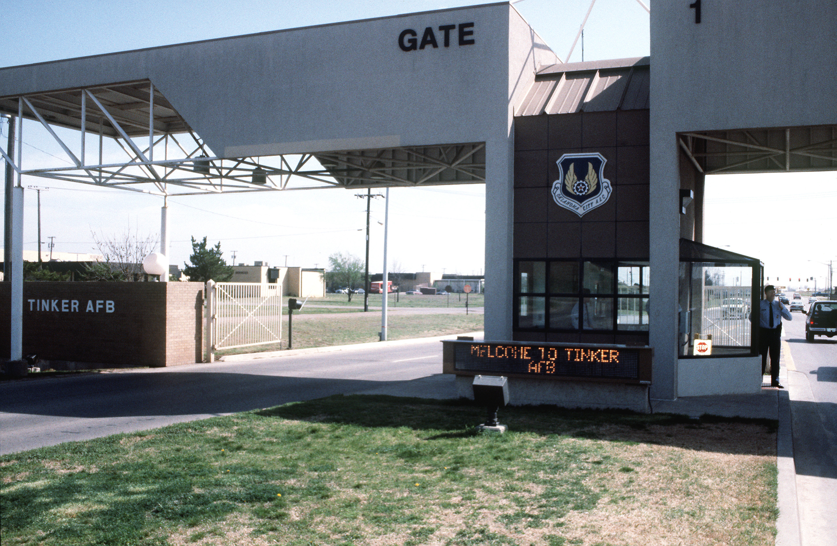 A close-up view of the main gate.Location: TINKER AIR FORCE BASE, OKLAHOMA (OK) UNITED STATES OF AMERICA (USA)